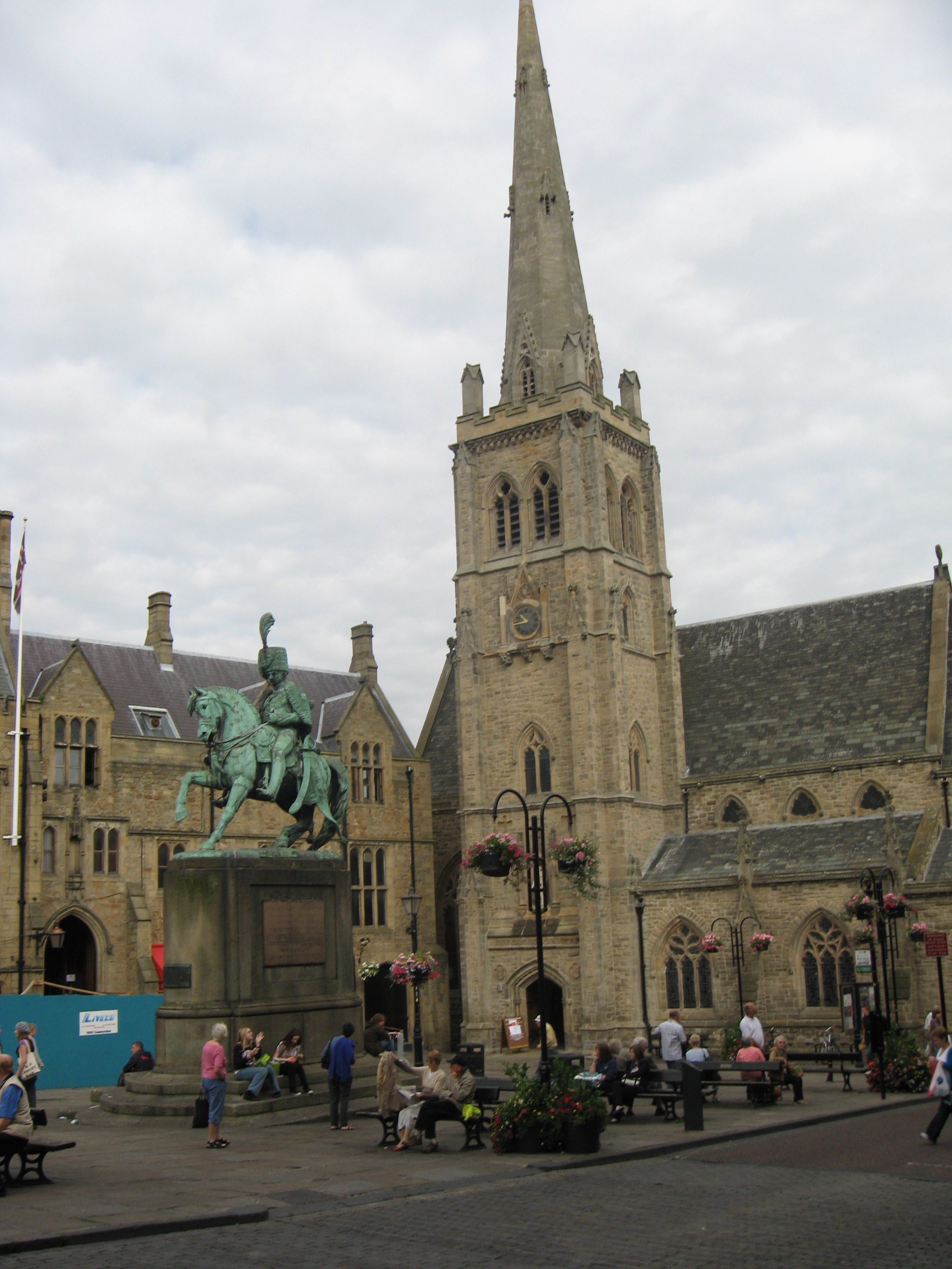 Durham Marketplace and church.